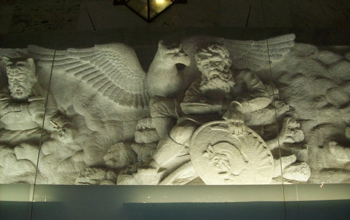 Phoenix the mythical bird of the Shahnameh, found in Tus, Iran.